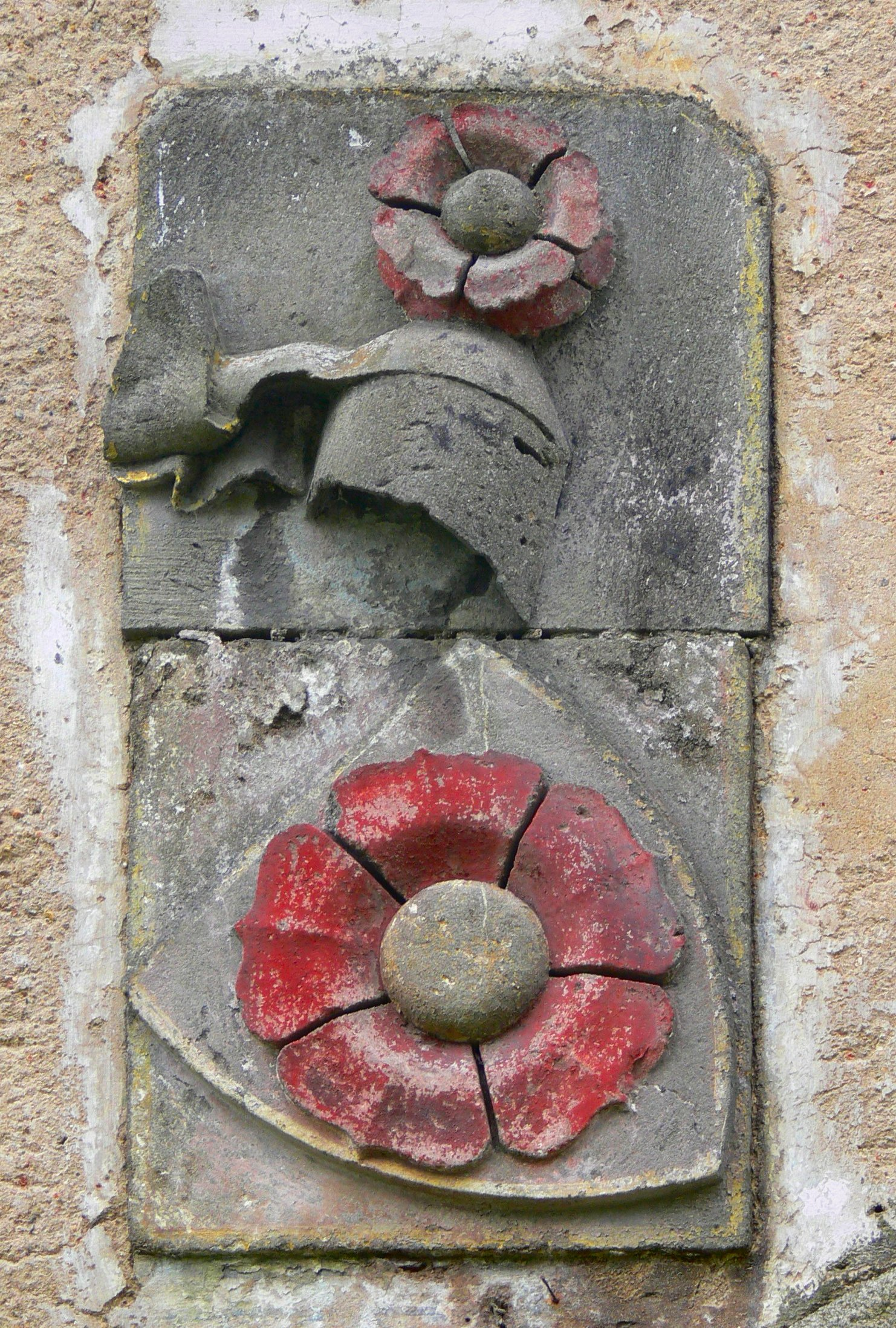 Monastery of Vyšší Brod. Main entrance gate: Coats of arms of the house of Rosenberg.